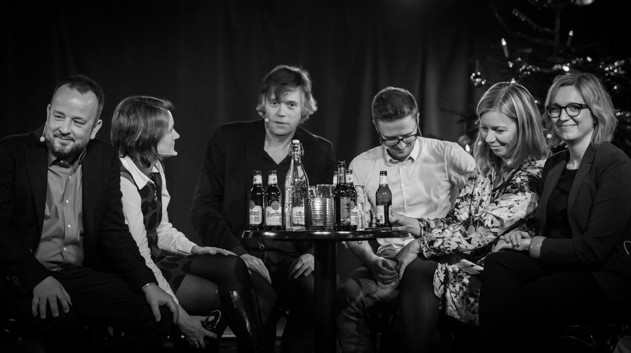 Recording of the Podcasts "Giæver & Joffen" and "Aftenpodden" at Kulturhuset in Oslo 2015.